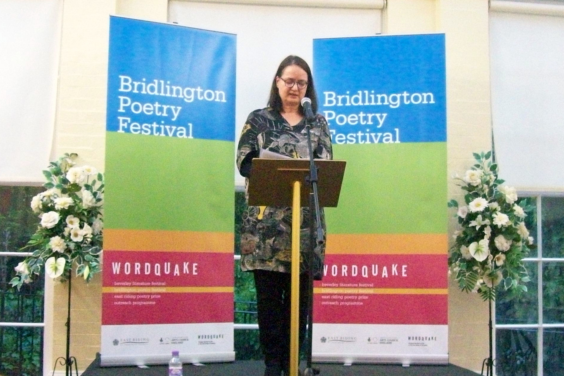 Jo Shapcott read her work; Jo, with no apparent effort whatsoever; manages to keep her audience spellbound!